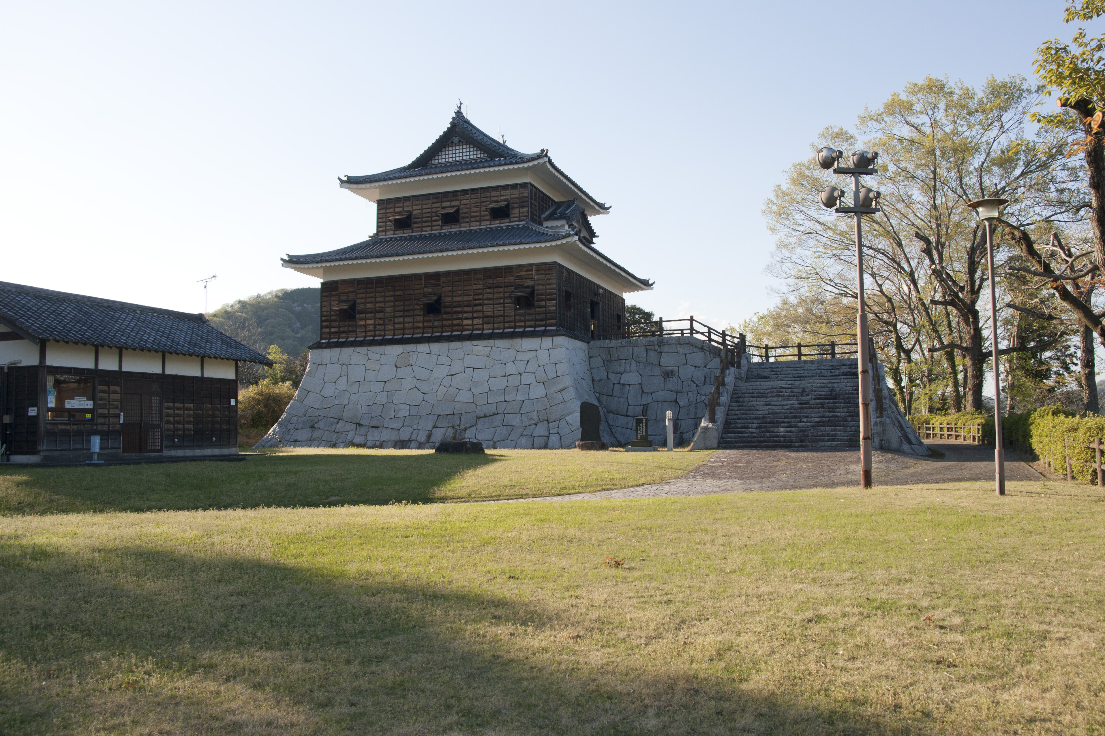 Yamagata Castle in Hitachiomiya City, Ibaraki Pref., Japan